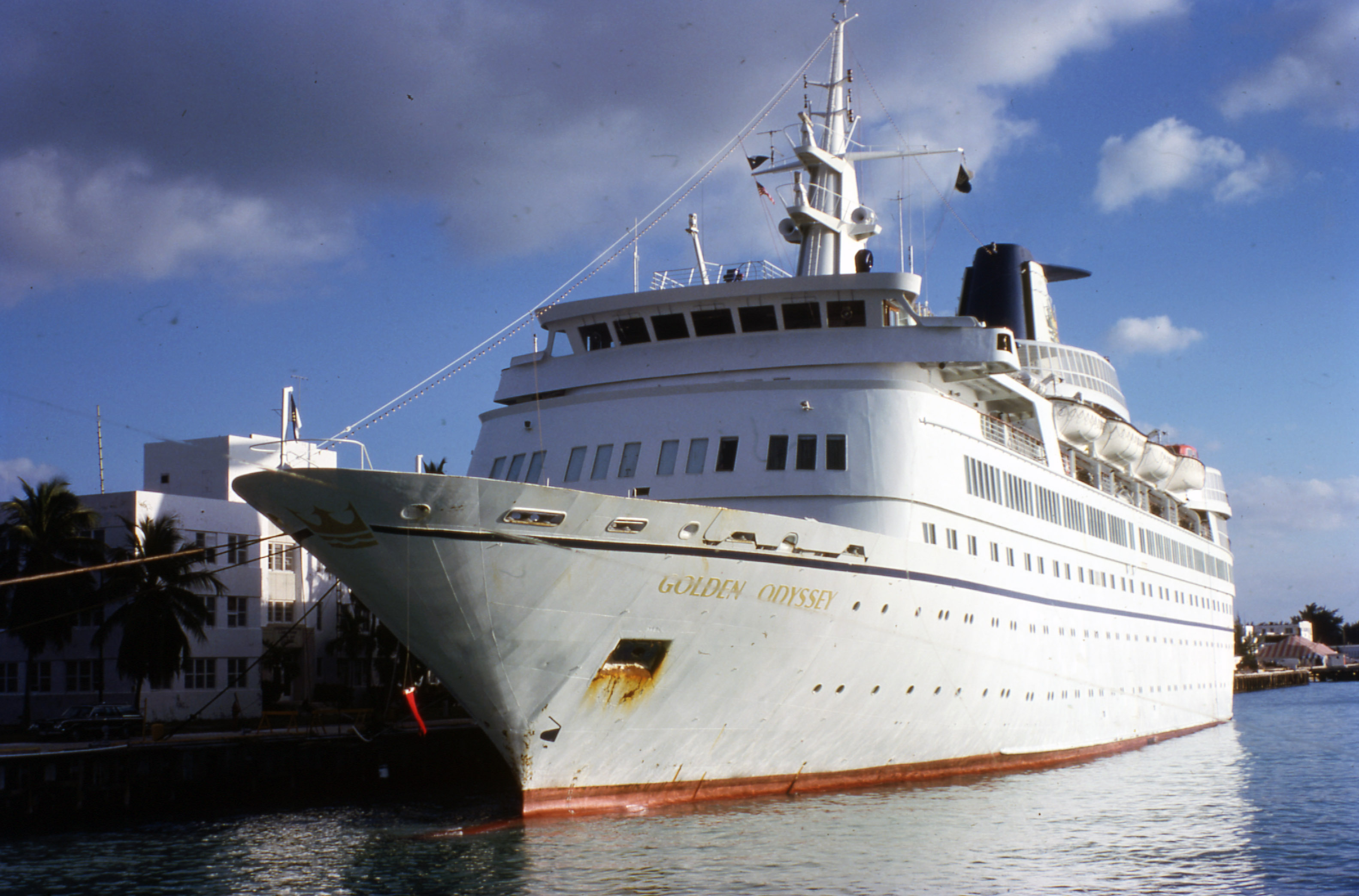 Cruise ship Golden Odyssey at Truman Annex dock in January 1980. Photo by Raymond L. Blazevic.